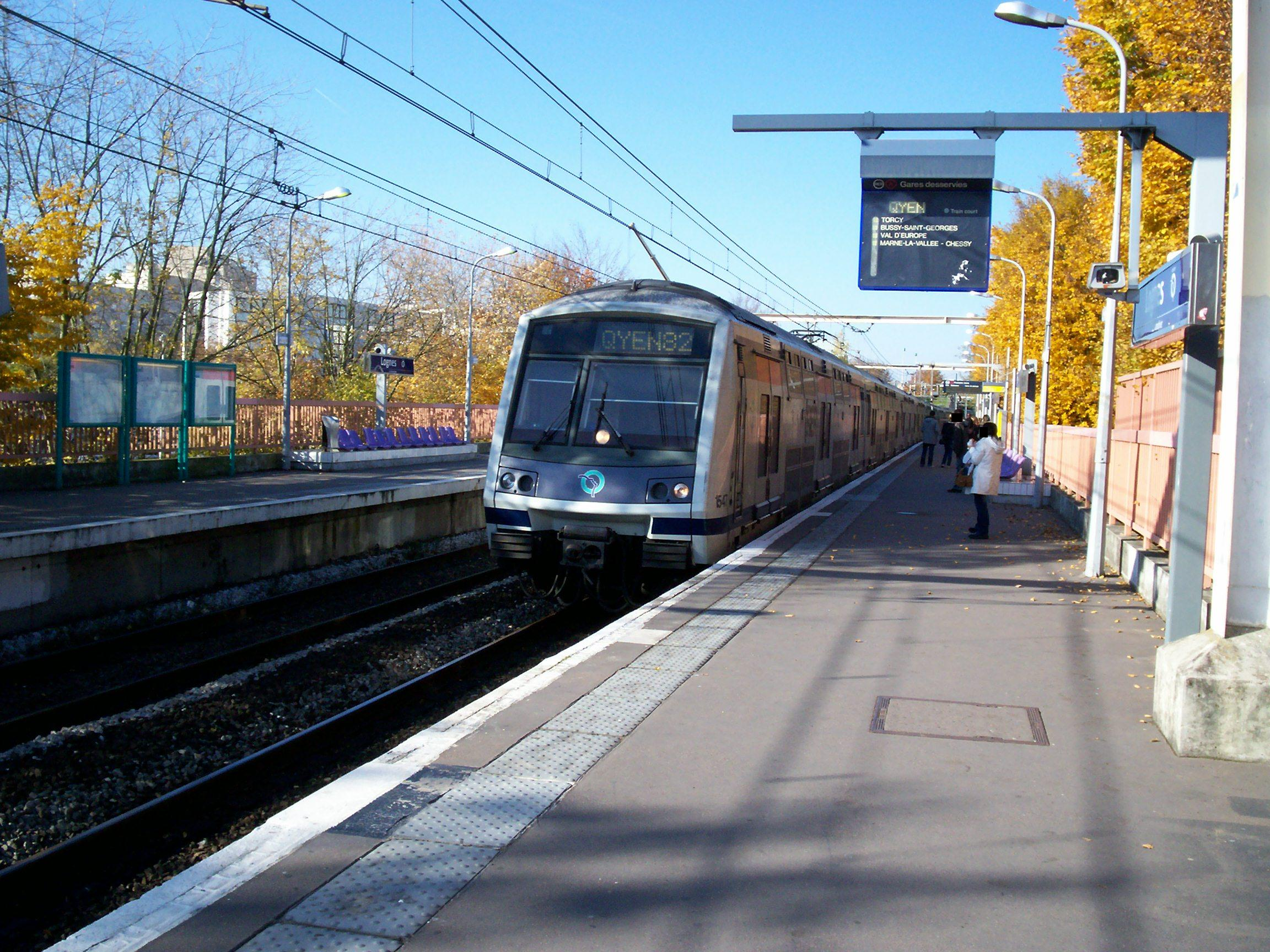 The service QYEN82 served by a MI 2N Alteo, going to Marne-la-Vallée – Chessy (parks Disneyland), at Lognes station.